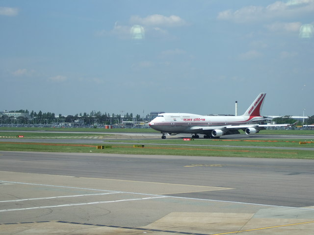 Air India aircraft at Heathrow